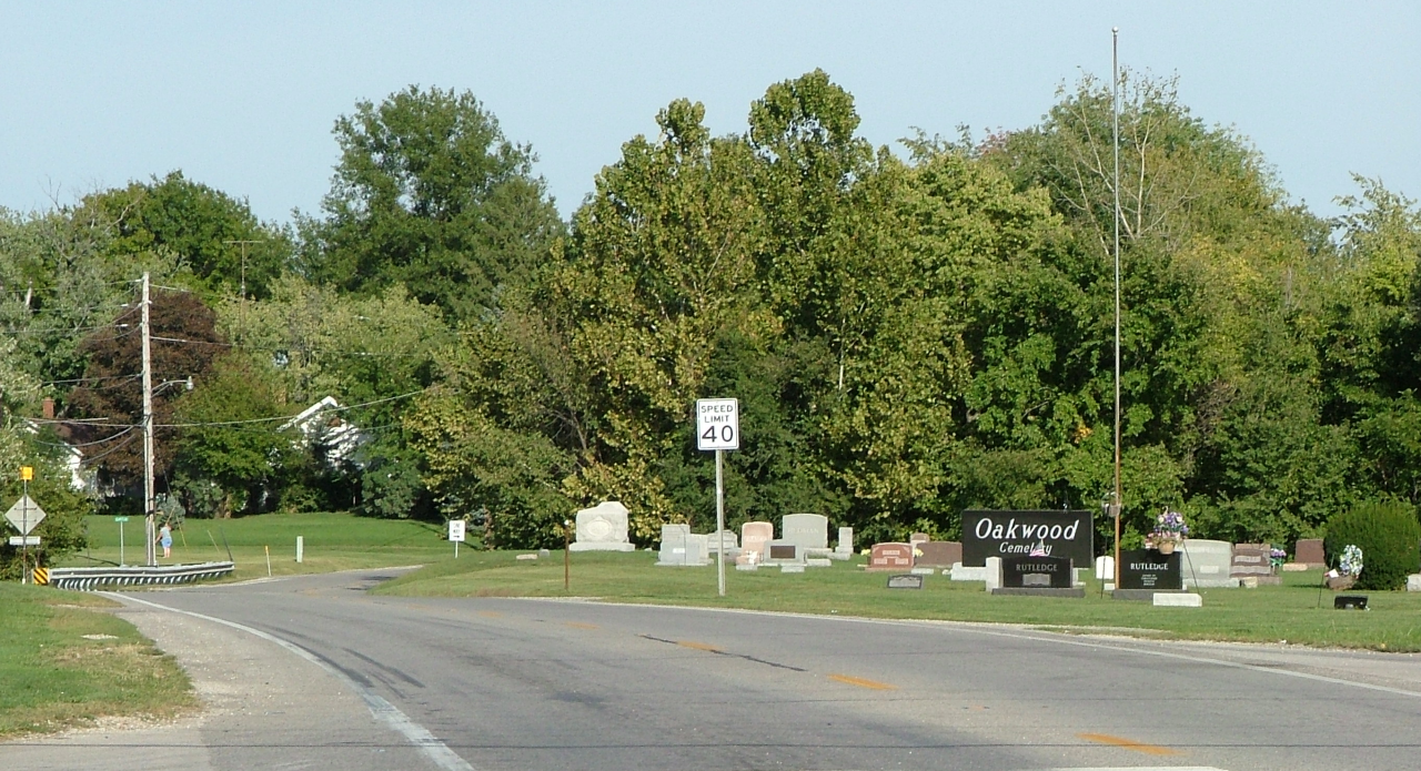 Oakwood Illinois road and cemetery, looking east on U.S. Route 150